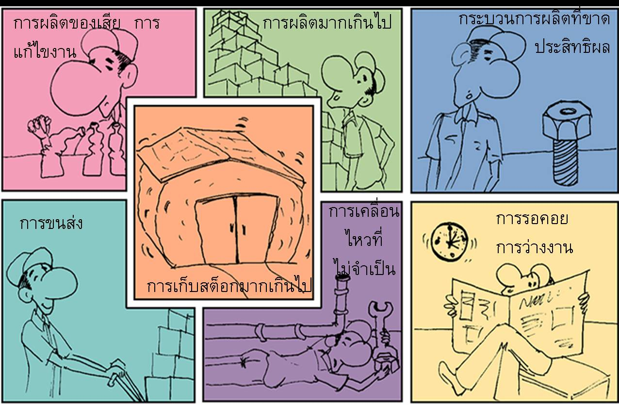 Seven Wastes (Muda)